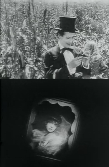 Scene from the movie Birth of a Nation. 1915.